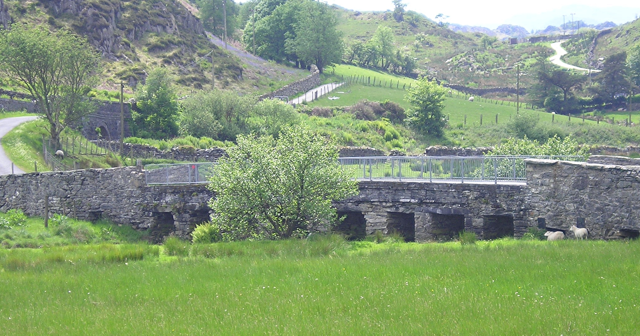 made by me Noel Walley